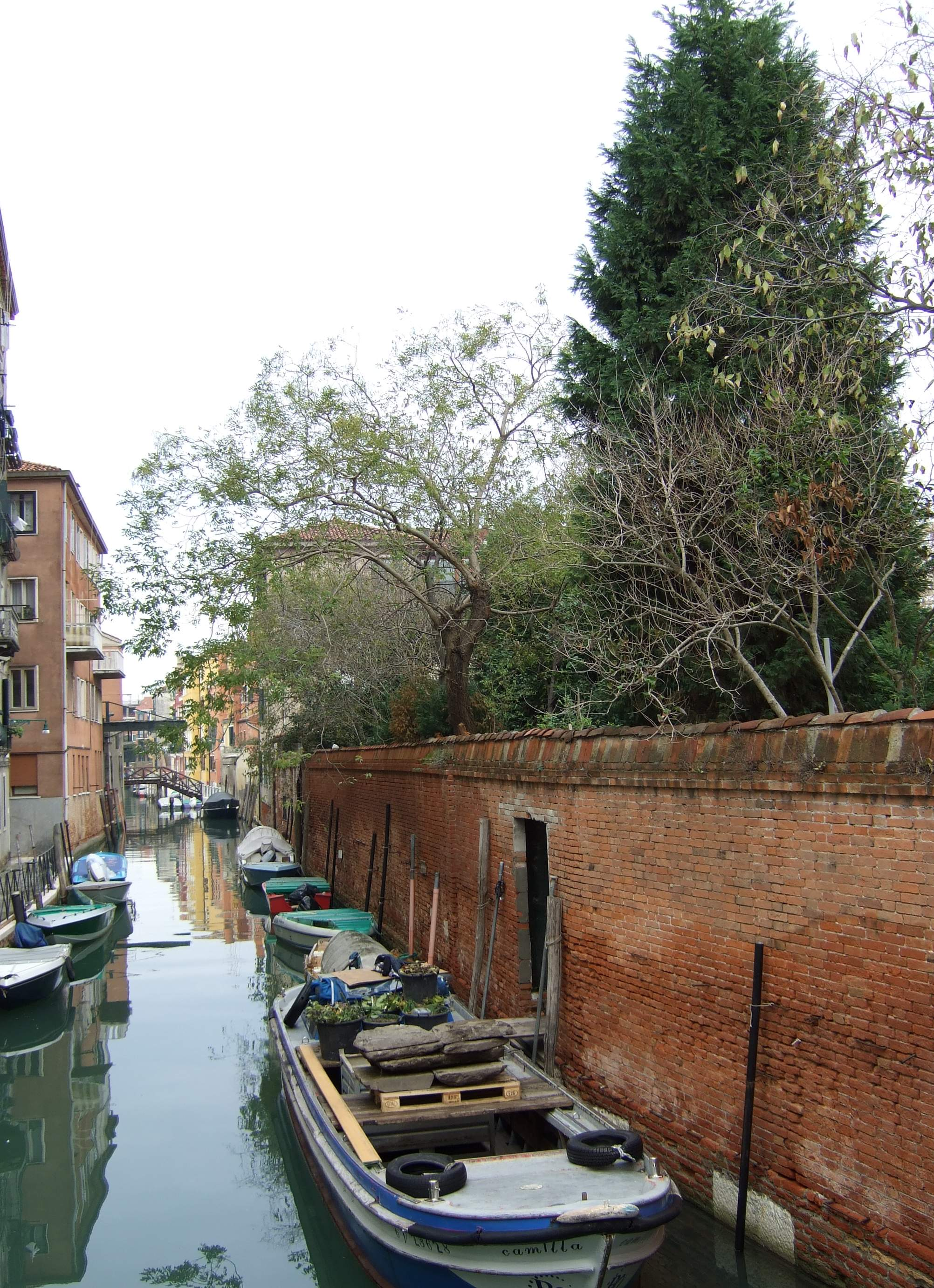 Rio del Battello (Venice)